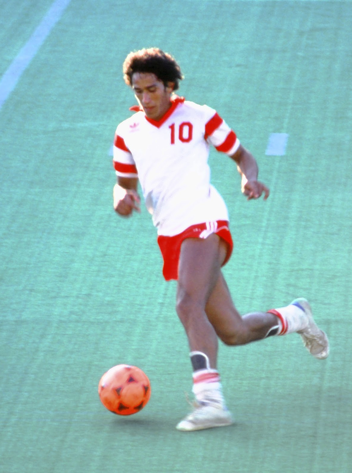 Armando Betancourt playing College soccer for Indiana University in 1981, by Rick Dikeman.